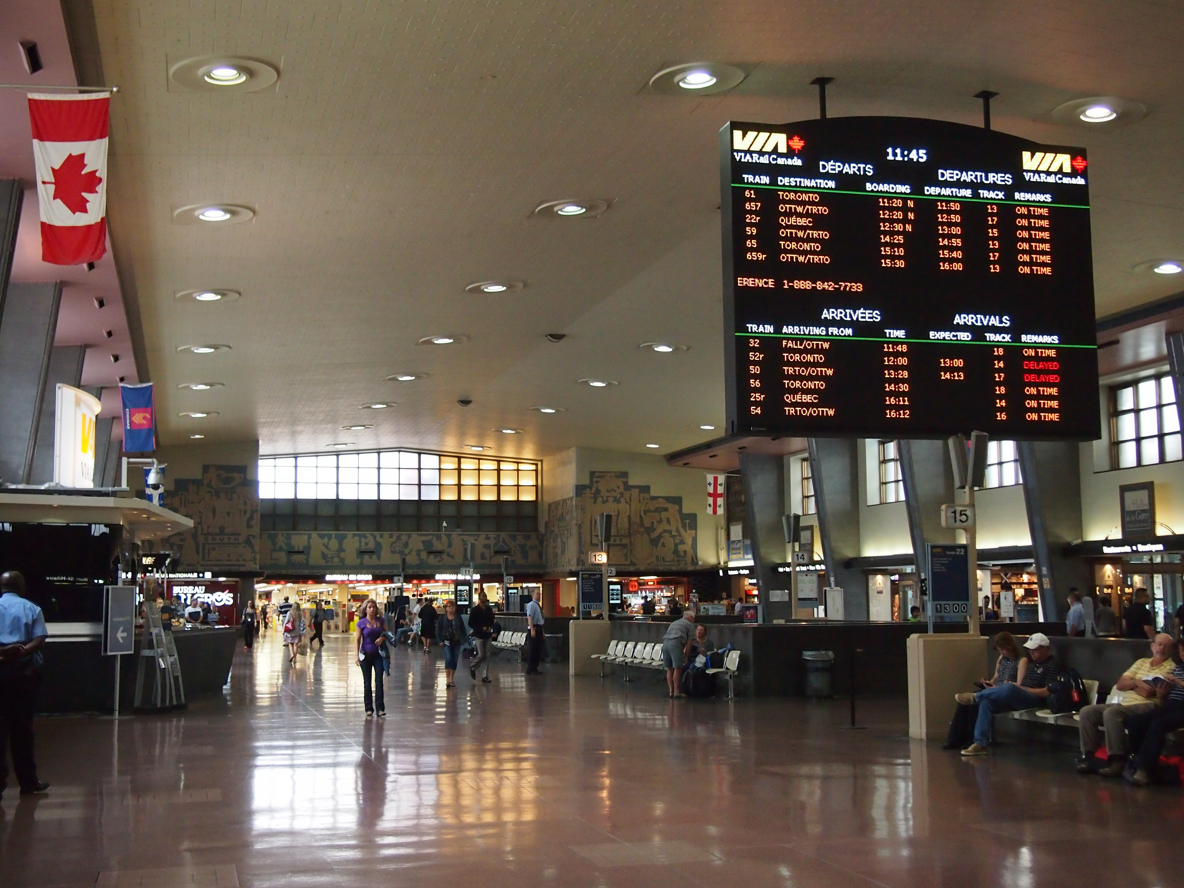 Inside the Gare Centrale looking west, with the main train display.